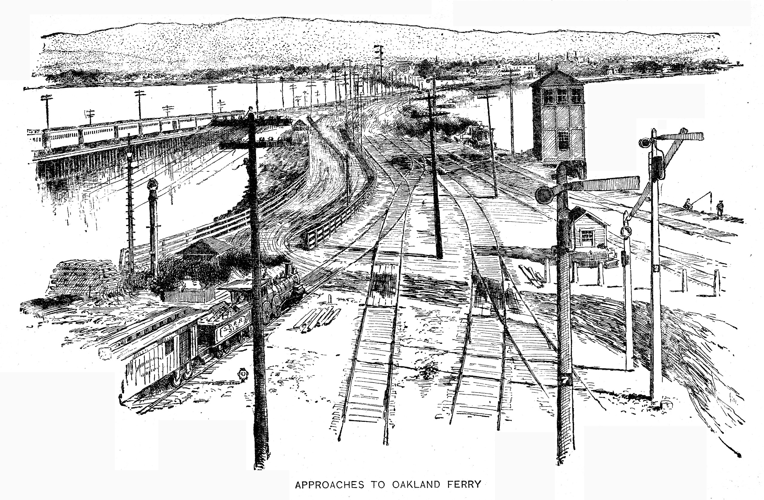 Engraving of the approach to the Oakland Long Wharf as seen from the Oakland Ferry Mole looking toward Oakland, CA. (1889) Source: "Over the Range to the Golden Gate" by Stanley Wood. Chicago: R.R. Donnelly & Sons, Publishers. 1889 The Cooper Collection of U.S. Railroad History (uploader's private collection)